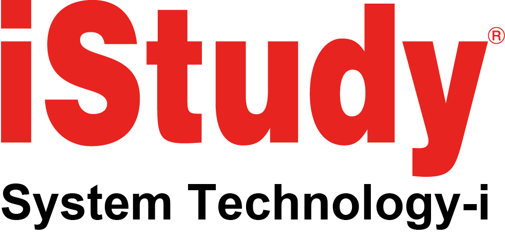 System Technology-I Co. Ltd. logo